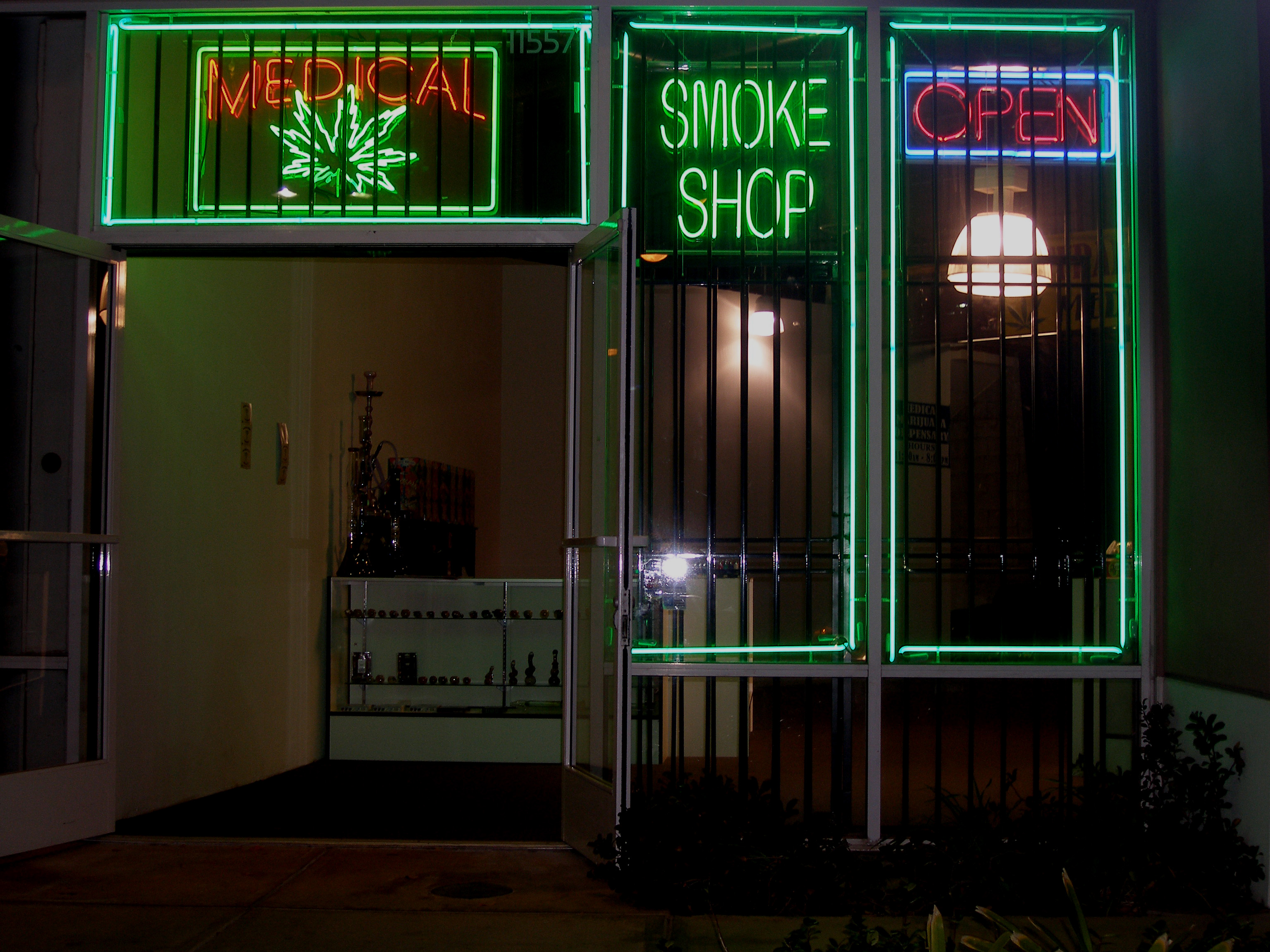 Medical marijuana dispensary on Ventura Boulevard in the San Fernando Valley—Los Angeles, California.